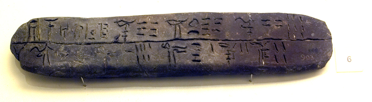 Tablet with inscription in linear B. Heraklion Archeological Museum (Crete).